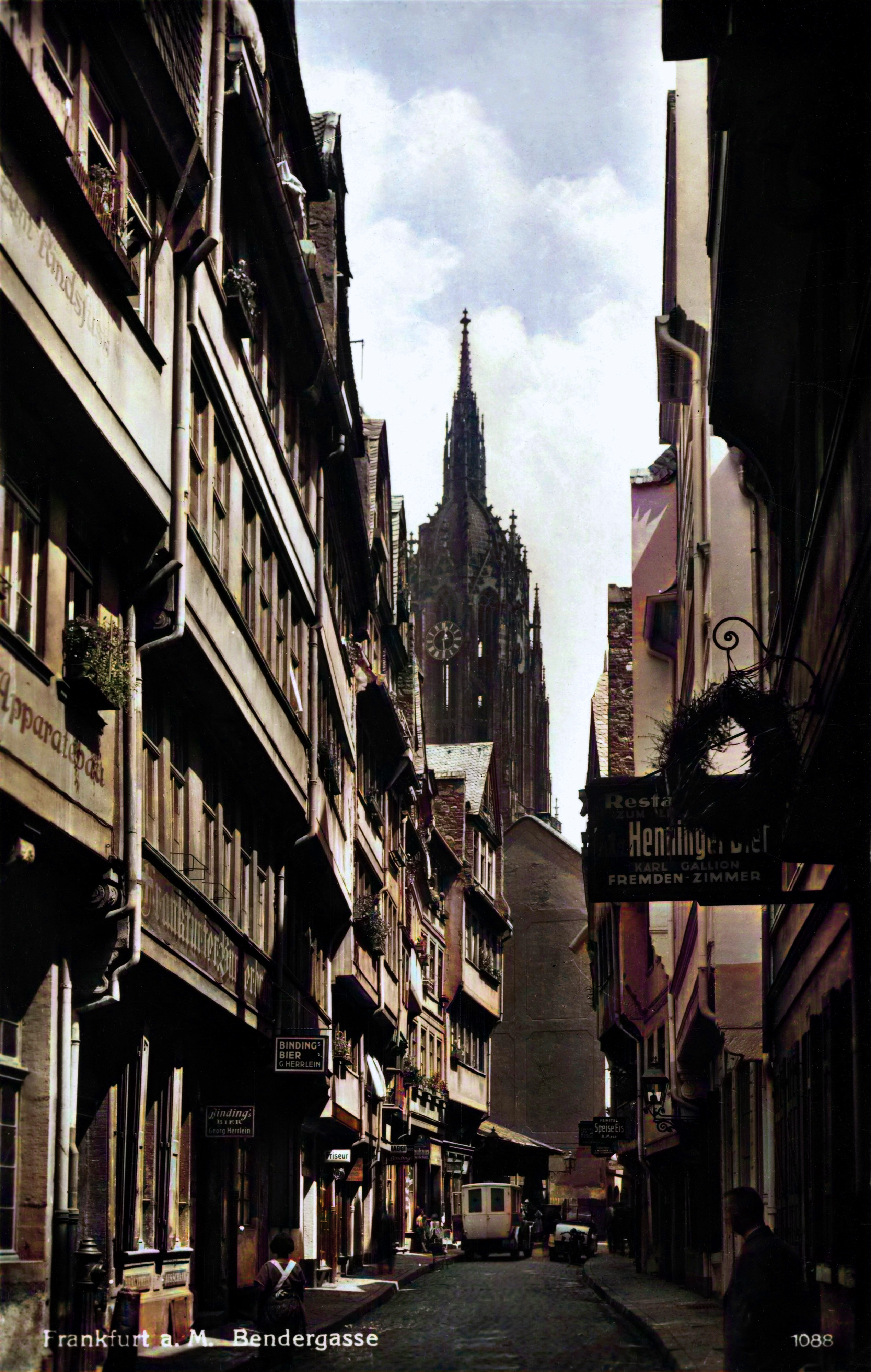 Colourised photograph of the former street in Frankfurt Am Main known as the Bendergasse. Photograph from 1904.